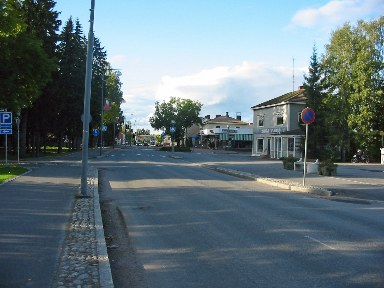 Joensuuntie, the main street of Somero, Finland, in 2011.